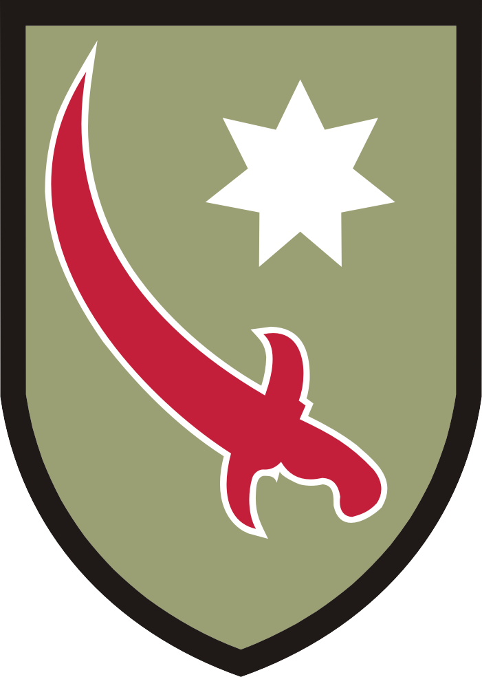 Persian Gulf Service Command Shoulder Sleeve Insignia